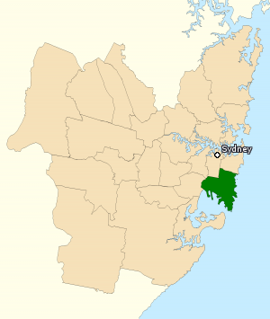 Incorporates or developed using Administrative Boundaries ©PSMA Australia Limited licensed by the Commonwealth of Australia under Creative Commons Attribution 4.0 International licence (CC BY 4.0). Derived from State and Territory Boundaries from the Australian Bureau of Statistics under Creative Commons Attribution 2.5 Australia license (CC BY 2.5 AU)